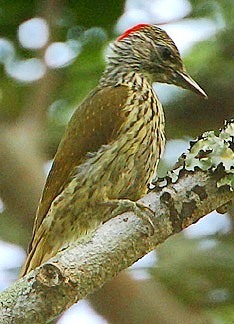 This is a female. Image taken in Arabuko-Sokoke Forest.